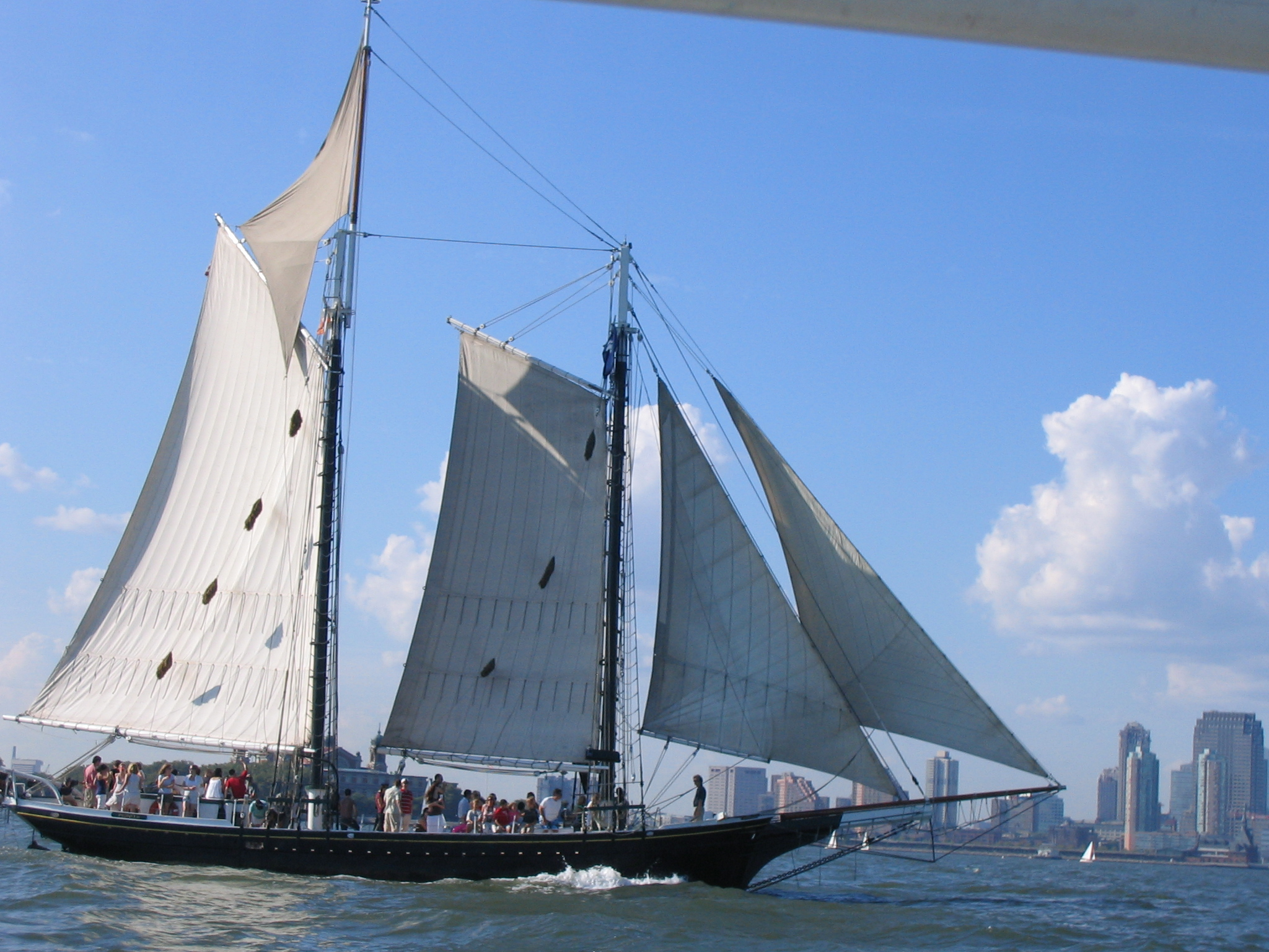 Out for a Sunday afternoon spin from its berth at the South Street Seaport